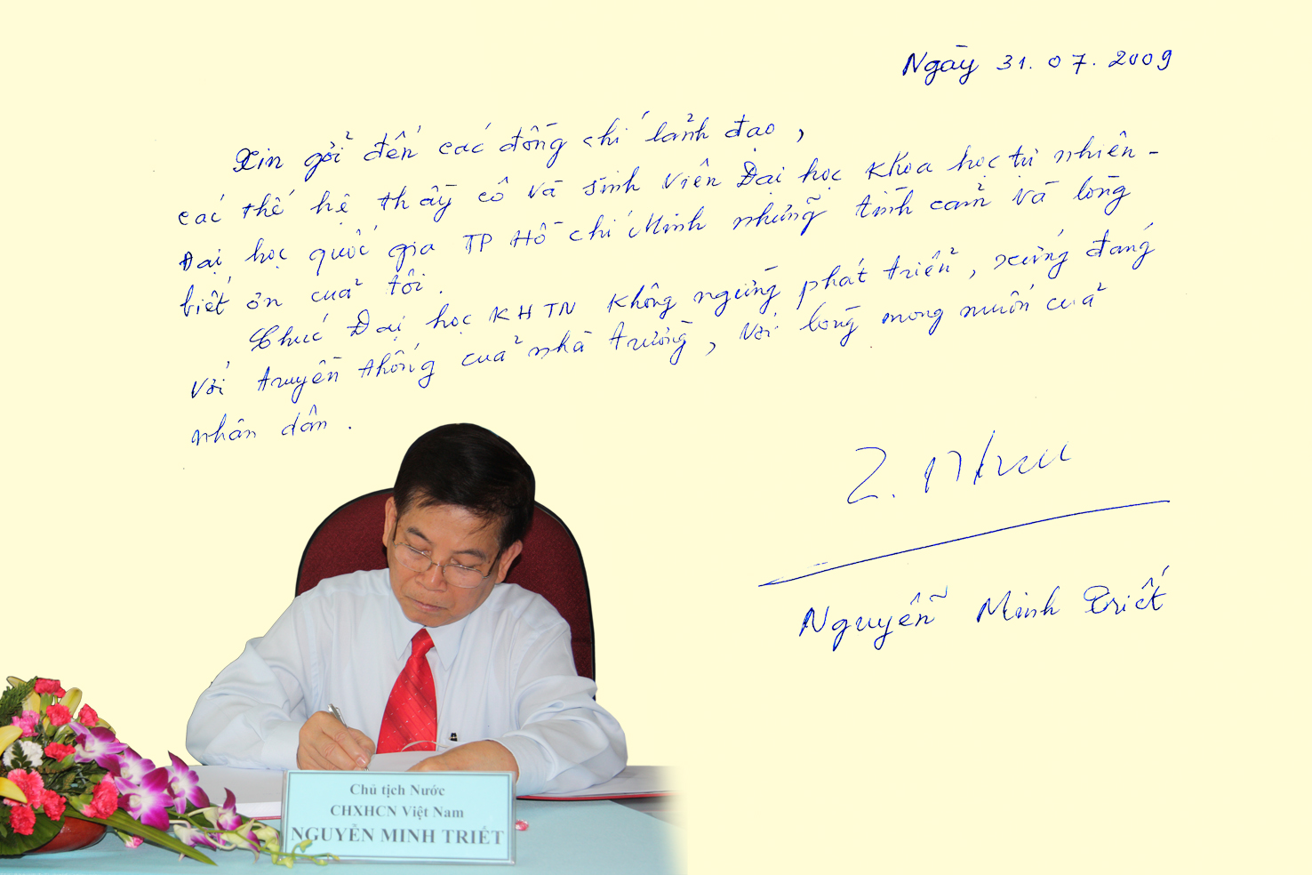 Lưu bút